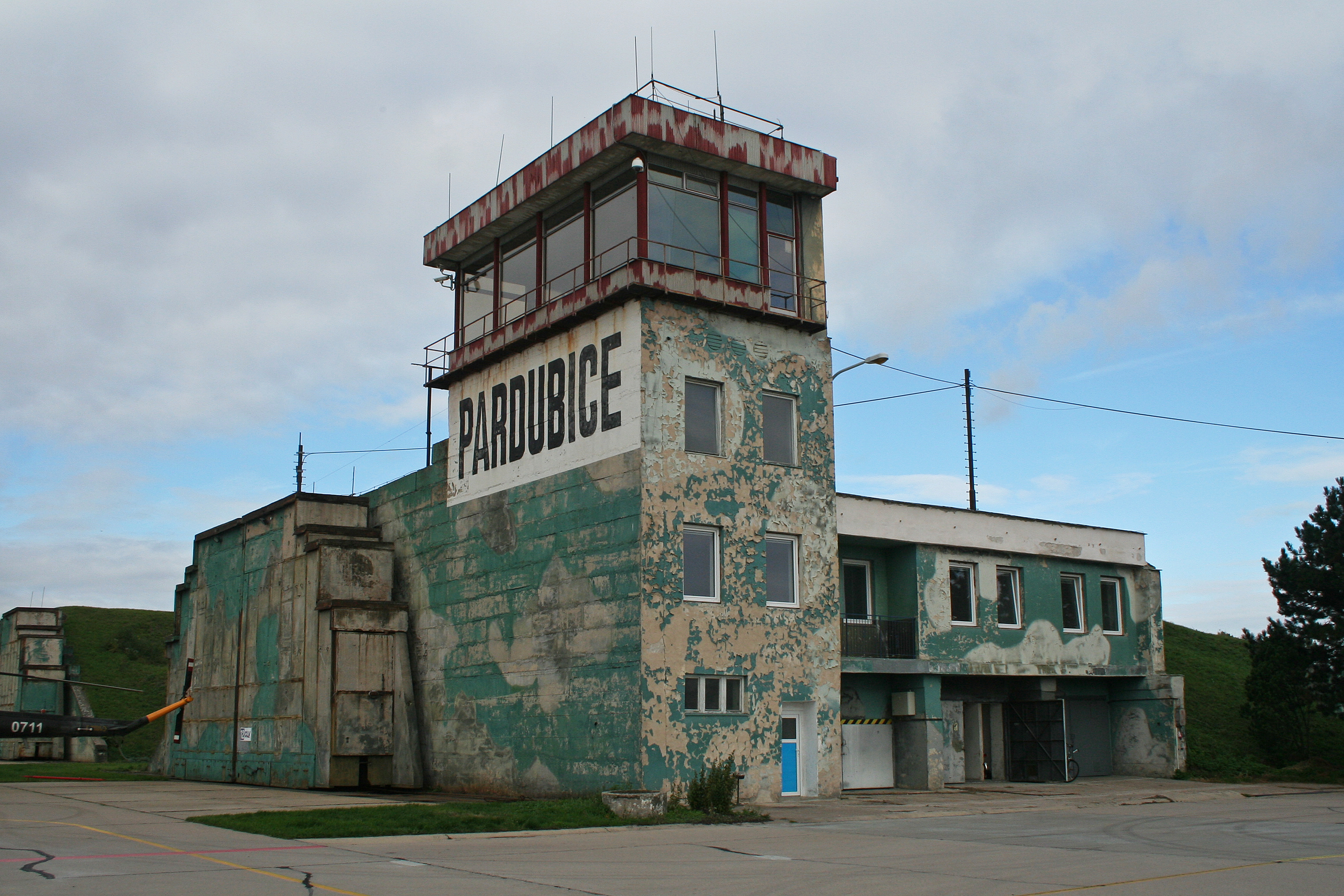 A combined Control Tower and Aircraft Shelter! Pardubice, Czech Republic. 08-10-2012